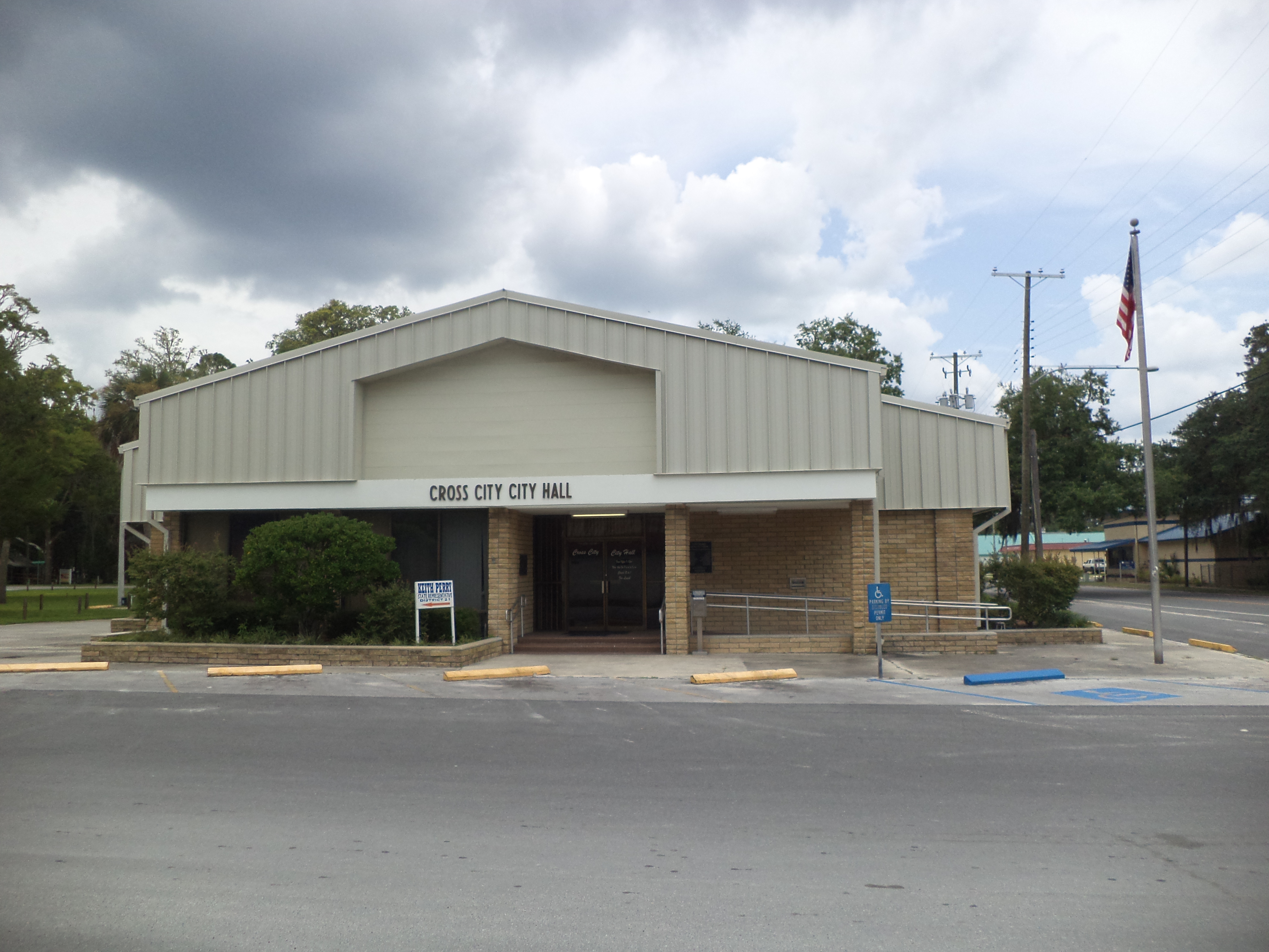 Cross City city hall, 99 NE 210th Ave, Cross City, Dixie County, Florida